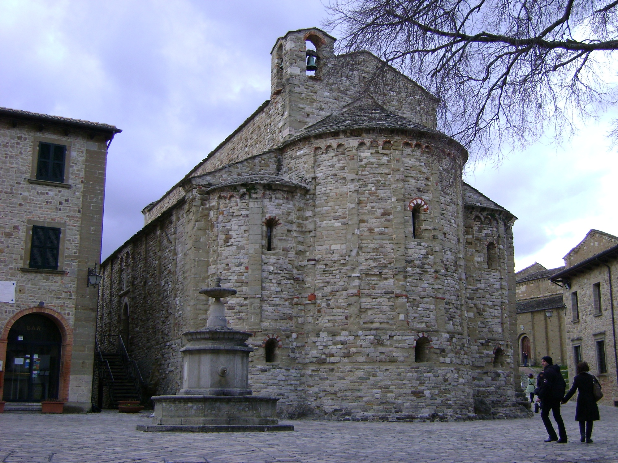 The interior of the church of Santa Maria Assunta, San Leo, province of Rimini, Emilia-Romagna